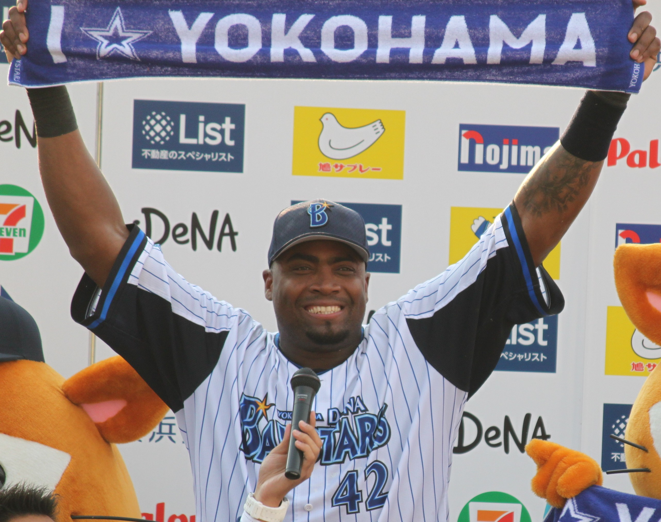 Tony Blanco, infielder of the Yokohama DeNA BayStars, at Yokohama Stadium.